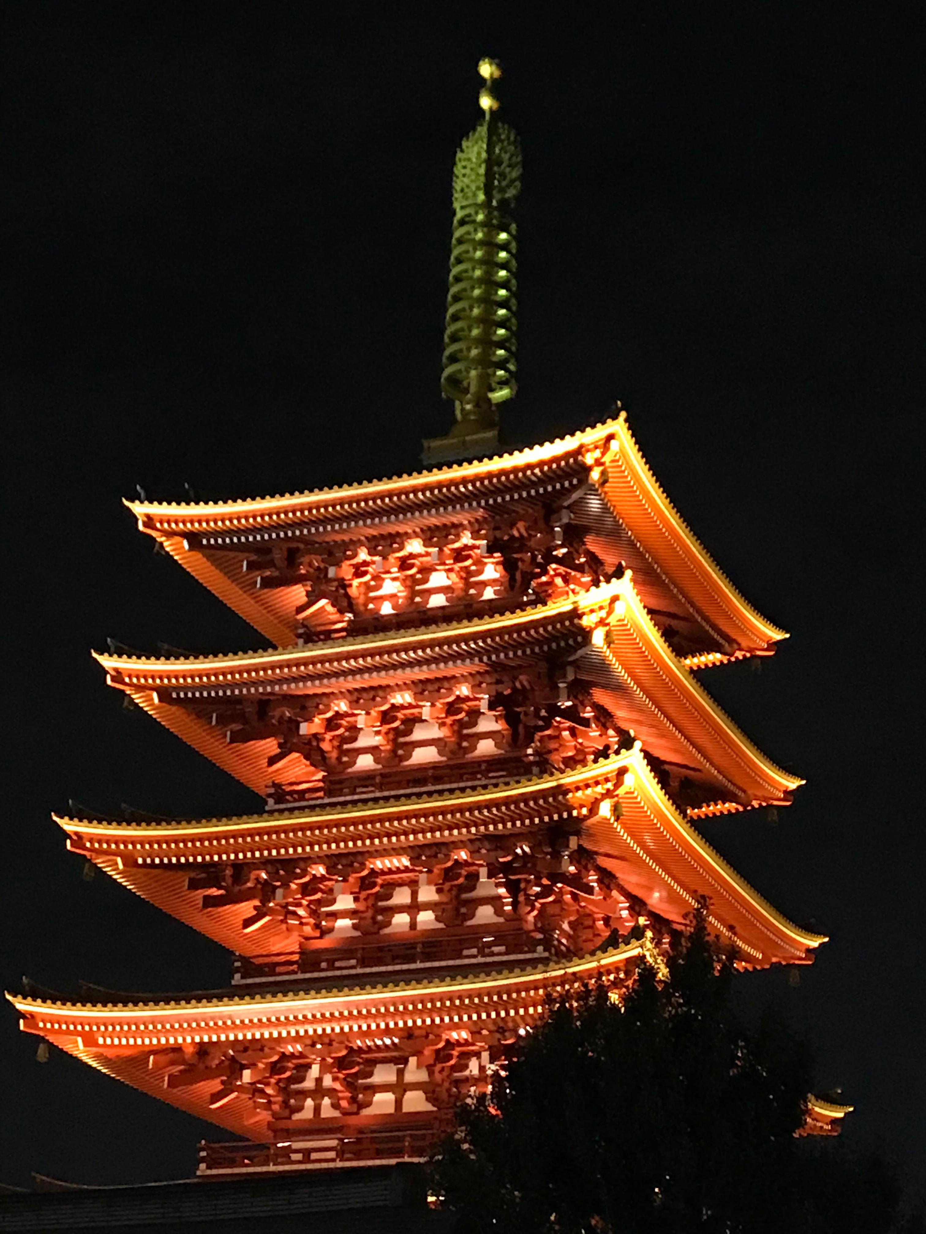 Sensō-ji. Noite do 27 de Outubro de 2017